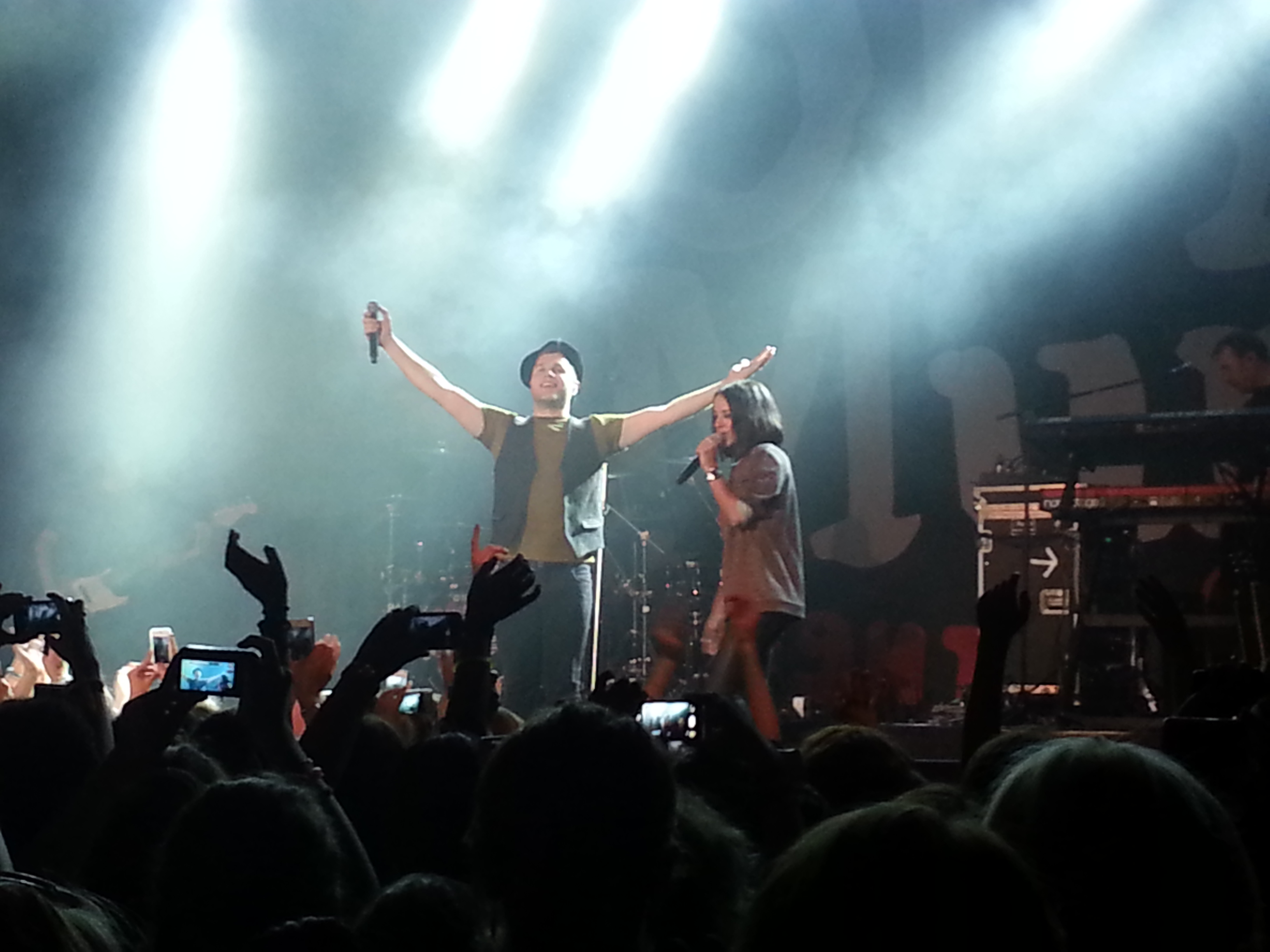 Olly Murs and Alizée singing the French version of the single Dear Darlin’. Trianon (Paris), September 30th, 2013.